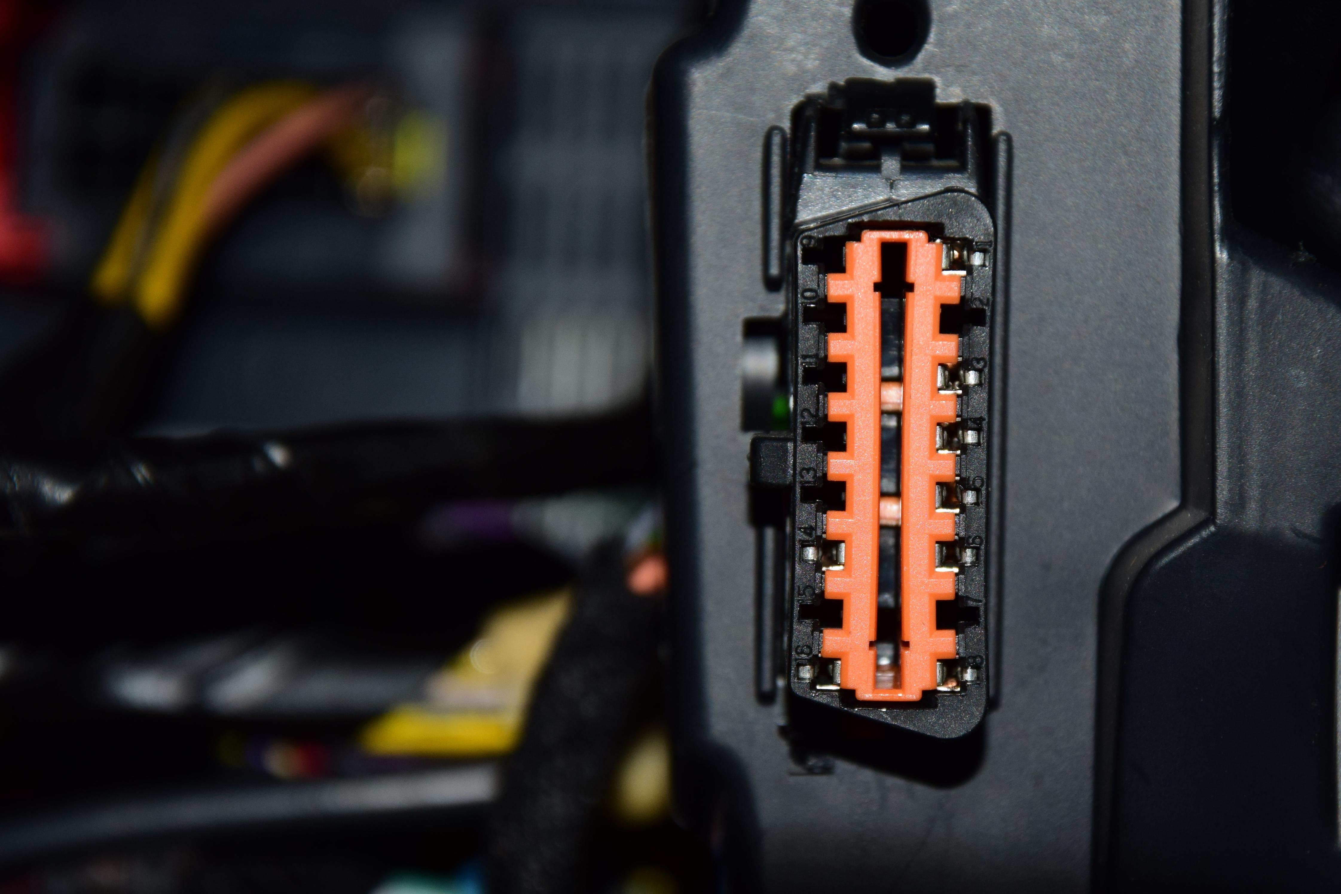 Female OBD-II connector on a car (Peugeot 208).